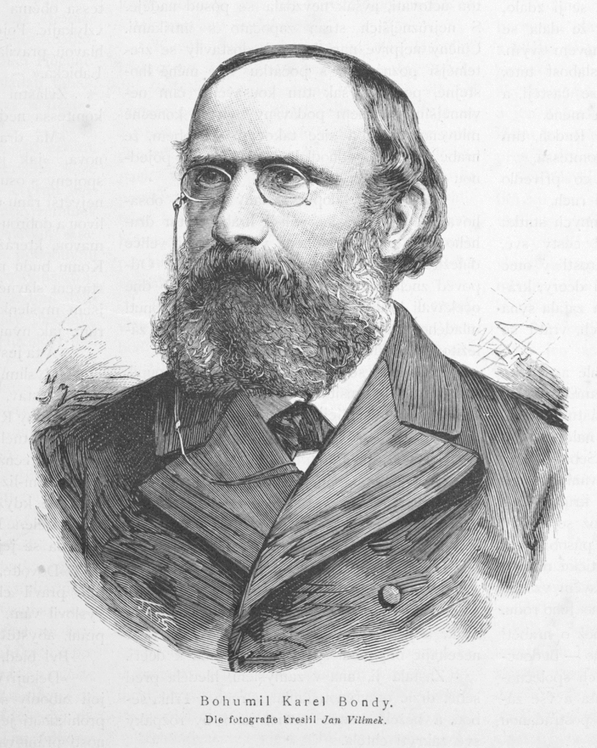 Portrait of Bohumil Karel Bondy (1832-1907), Czech entrepreneur and politician.